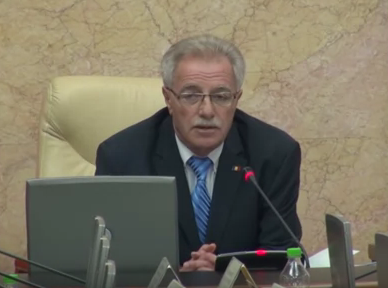 Gheorghe Brega